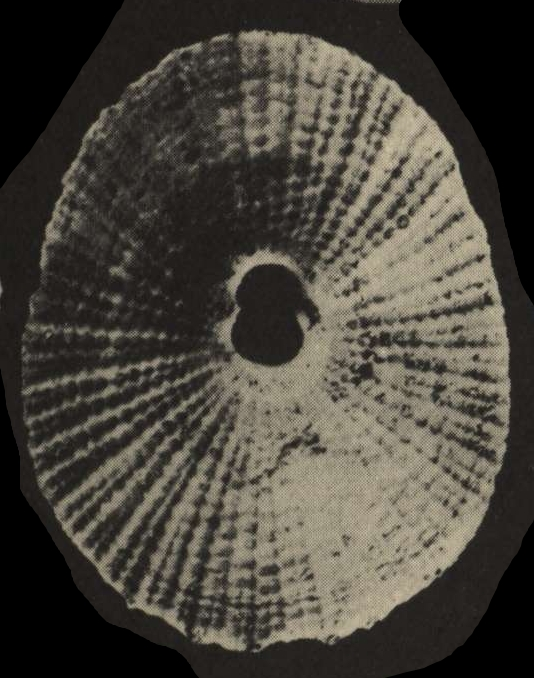 Black and white photo of apical view of the holotype of Monodilepas otagoensis.